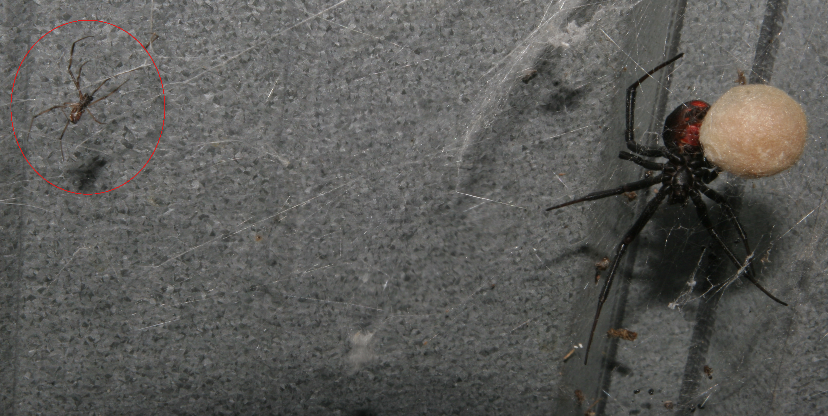 Female Latrodectus hasselti guarding egg sac in web with male in shot